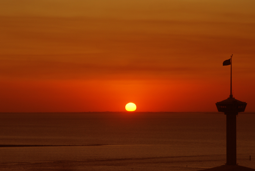 Sunset at King Fahd Causeway.